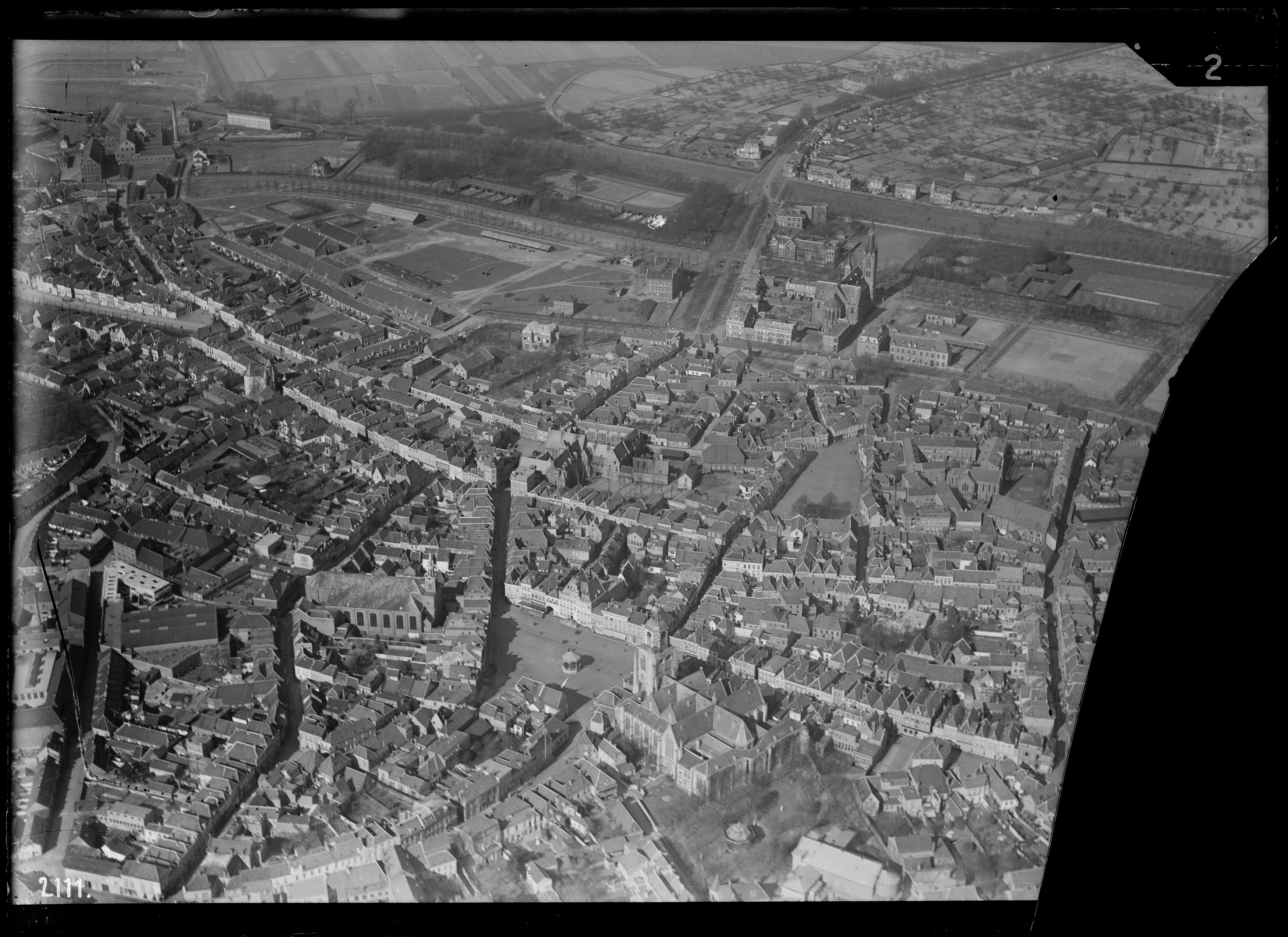 Aerial photograph of Bergen op Zoom, The Netherlands